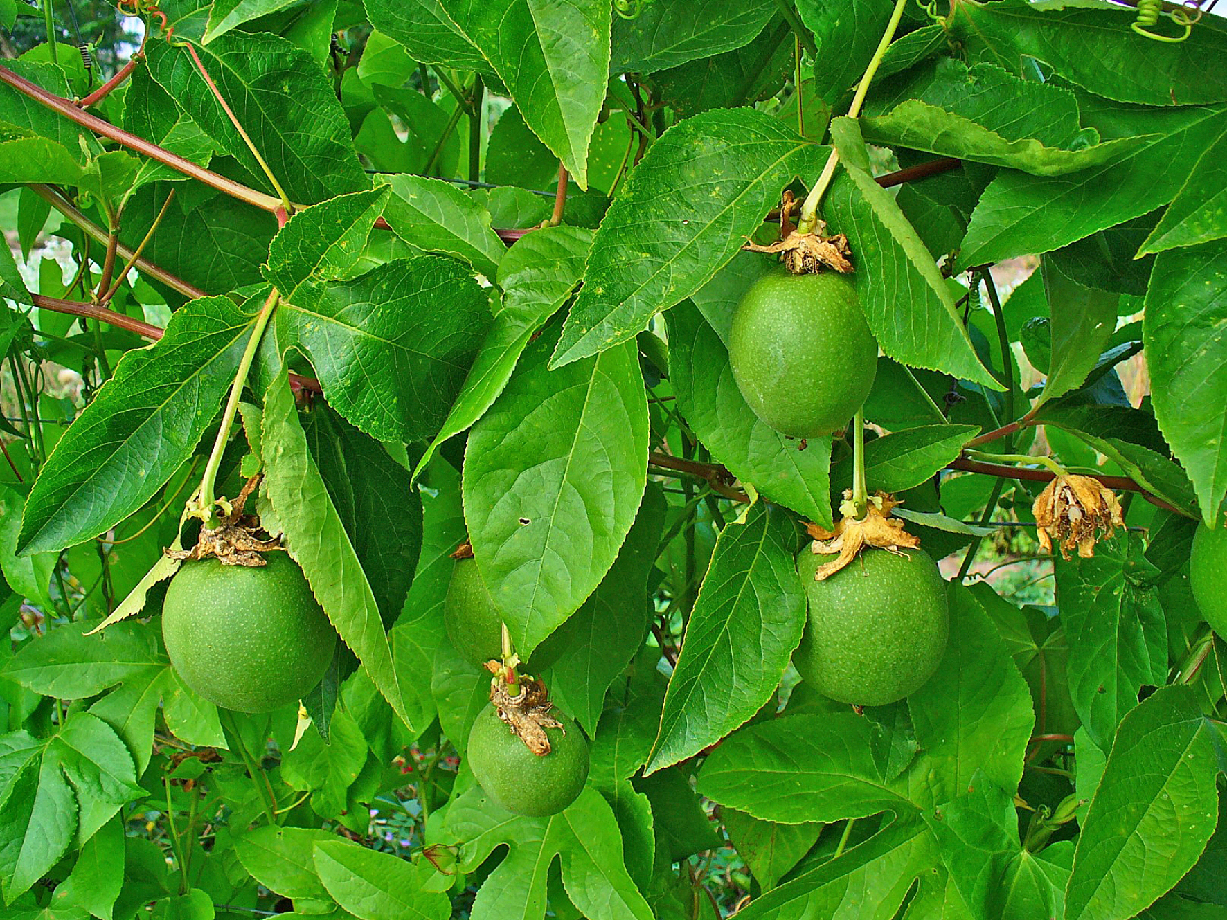 Passiflora incarnata, Passifloraceae, Maypop, Purple Passionflower, True Passionflower, Wild apricot, Wild passion vine, fruits.